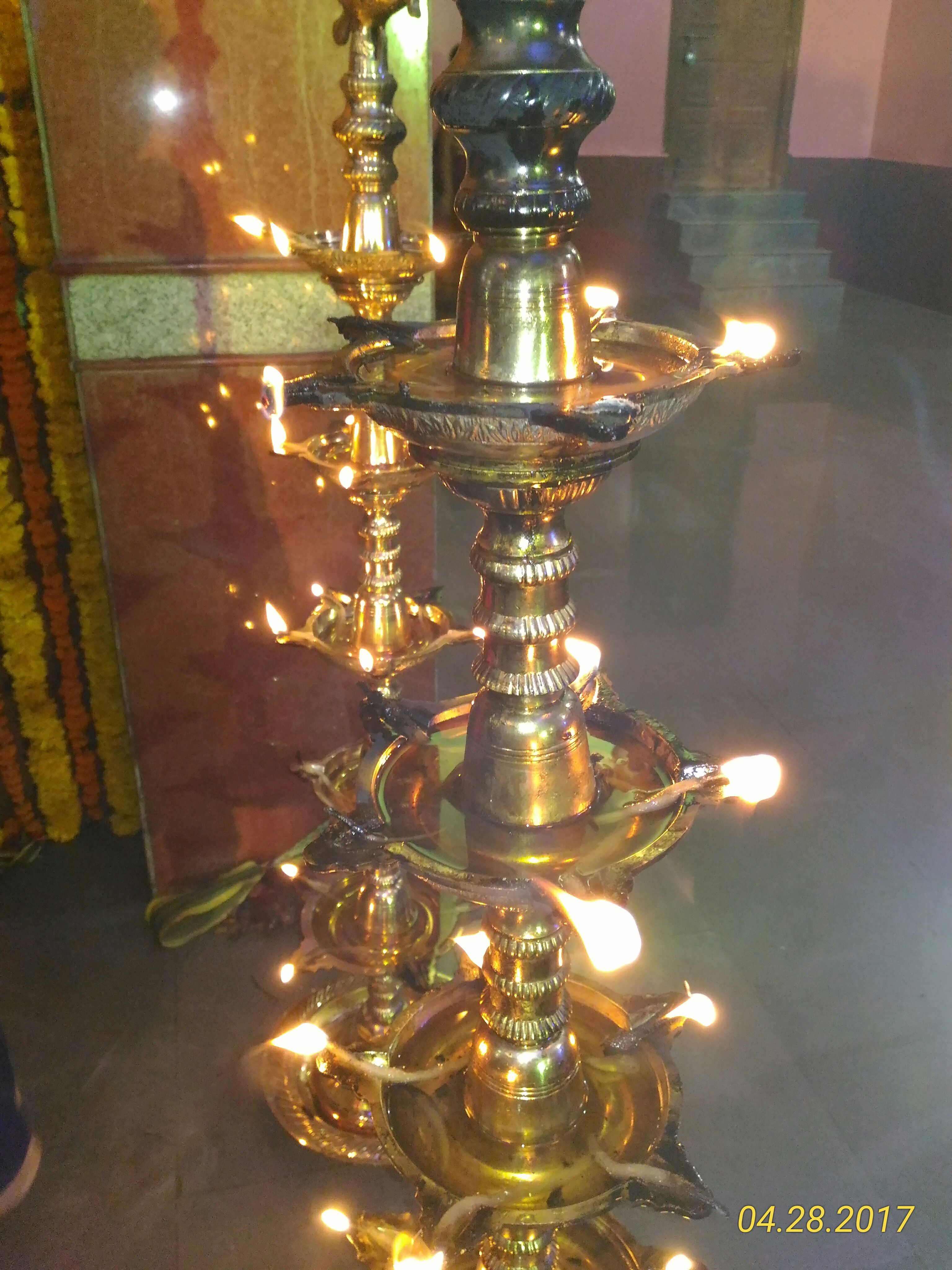 Traditional lamp, usually used in worship places in India